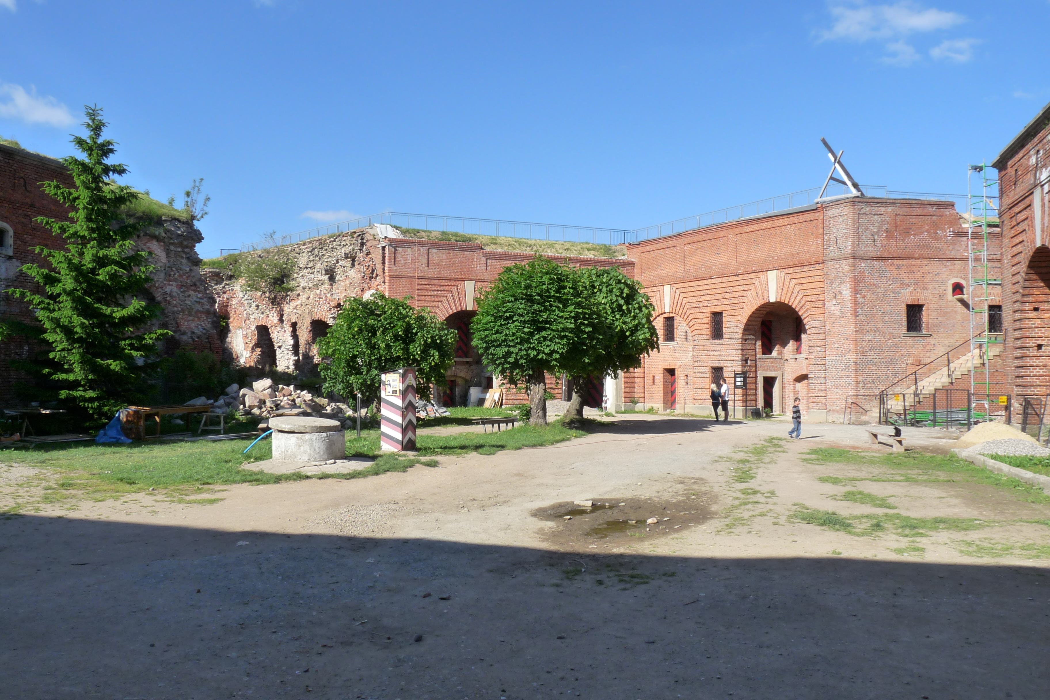 Srebrna Góra